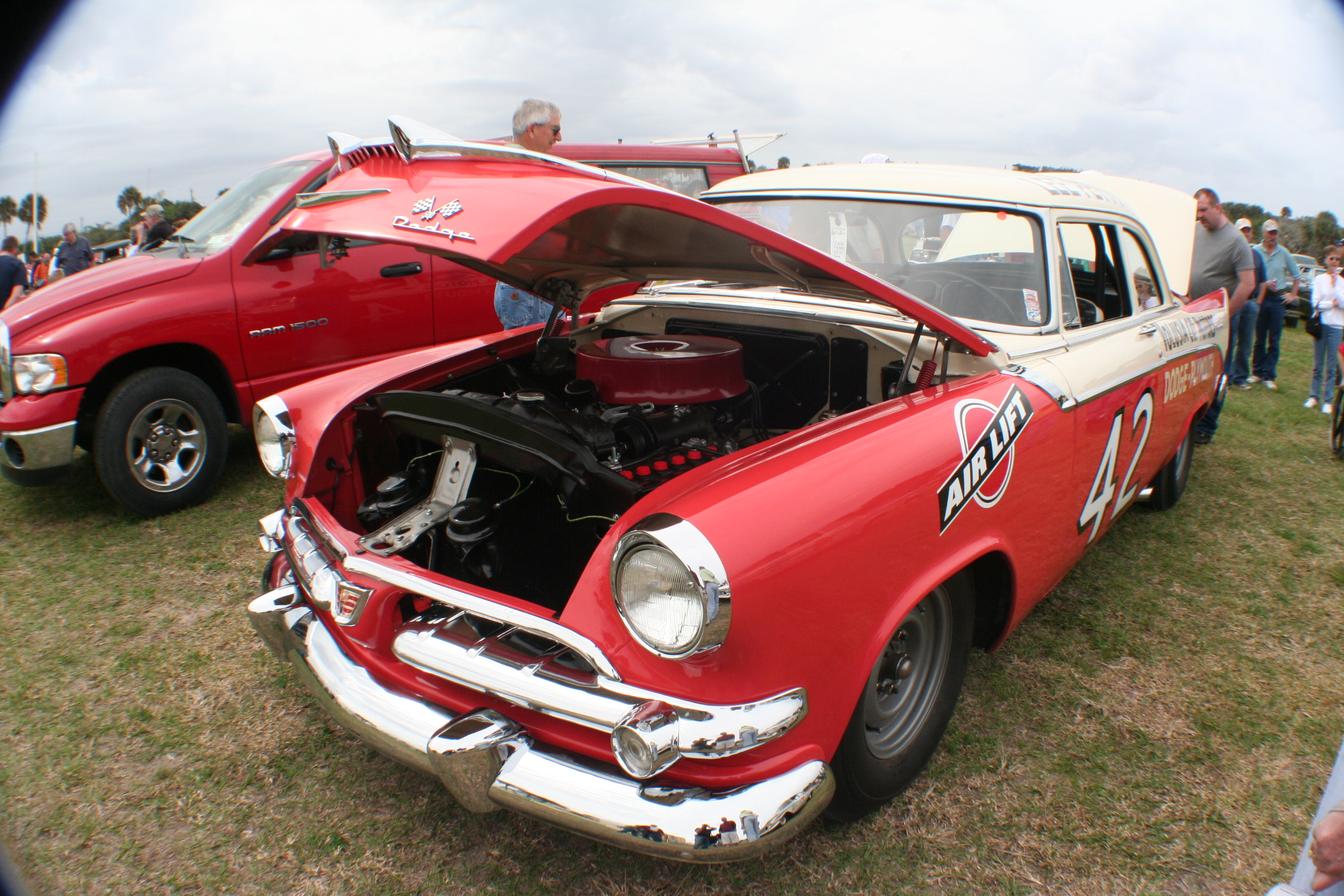 Shot by "The Daredevil" at Daytona during Speedweeks 2008